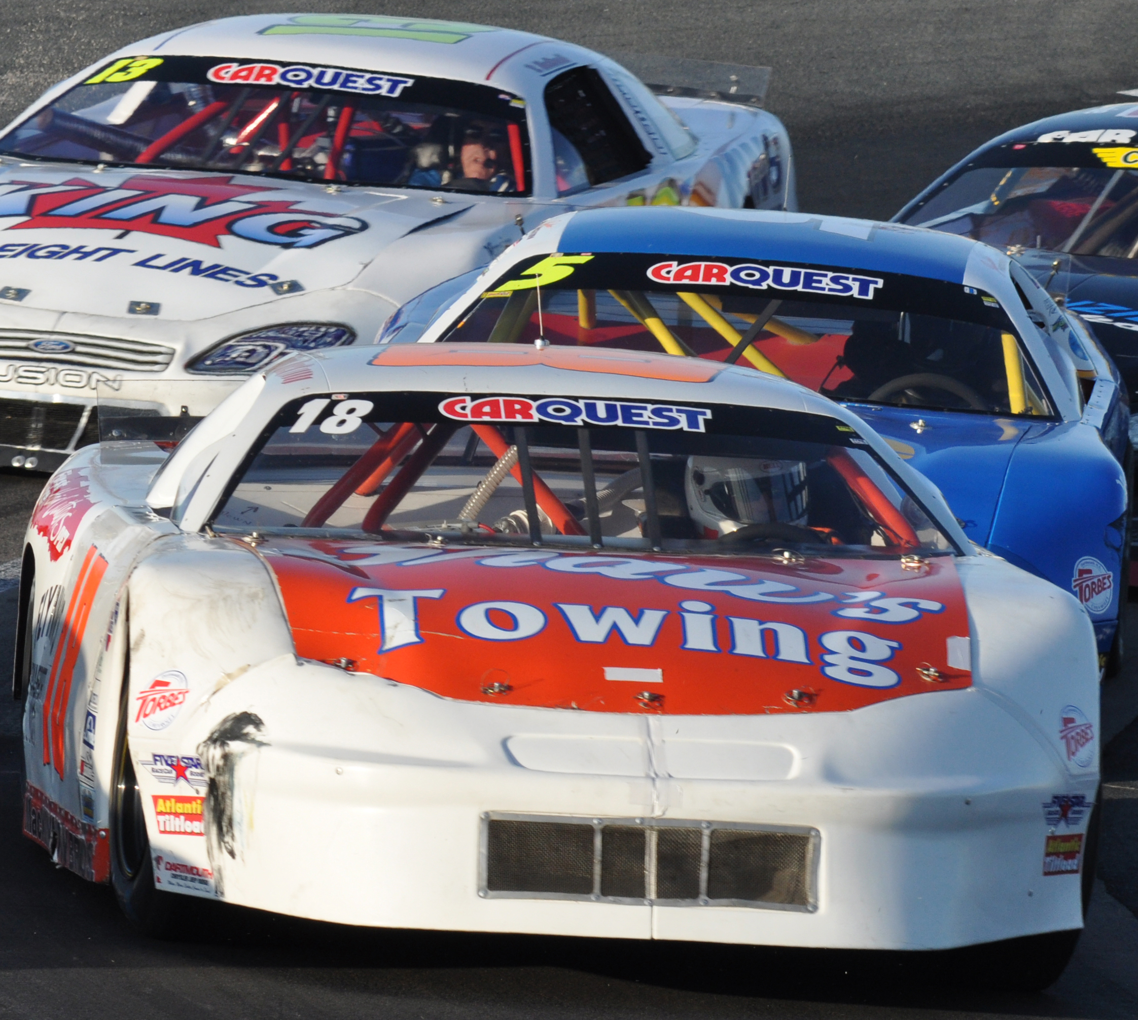 Race car at Scotia Speedworld, July 2010